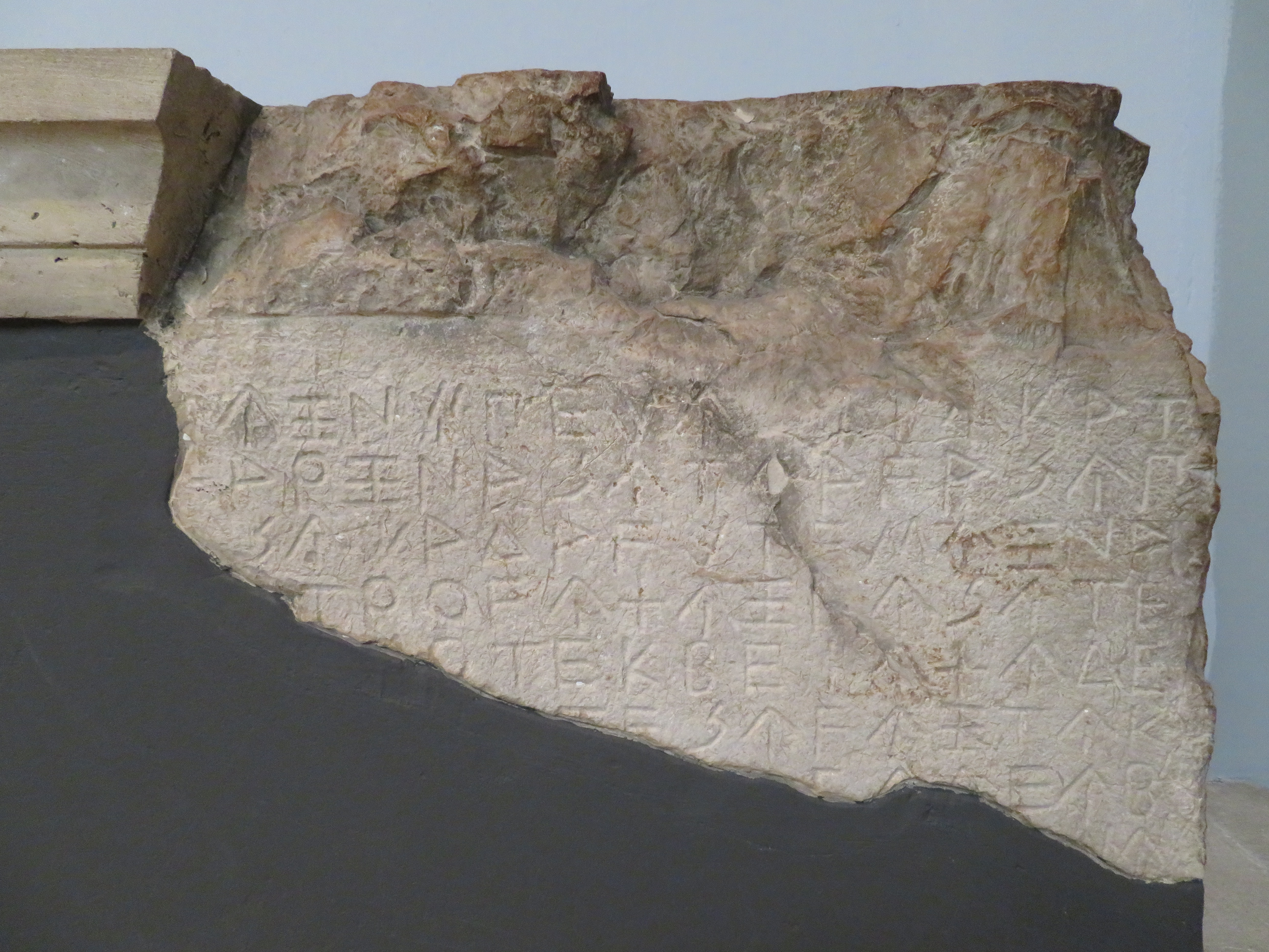 The bilingual Greek-Lycian Decree of Pixodaros, showing the incomplete inscription in the Lycian script. Found at Xanthos. Dated c. 340-334 BC. On display at the British Museum. GR 1848, 1020.159 (Inscription 1041).Inscription:𐊁𐊑𐊏𐊚𐊓𐊆𐊜𐊁[𐊅]𐊀𐊕(𐊀)𐊁𐊋𐊀𐊗𐊀𐊕𐊑𐊏𐊀𐊖𐊁𐊗𐊍𐊀𐊇𐊀𐊖𐊁𐊓𐊖𐊁𐊜𐊀𐊅𐊀𐊇𐊙𐊗𐊆𐊎𐊁𐊑𐊏𐊀..𐊗𐊕𐊒𐊇𐊁𐊛𐊁𐊑𐊏𐊁𐊖𐊁𐊗𐊆......𐊒𐊗𐊆𐊋𐊂𐊆𐊊𐊁𐊛𐊁𐊅𐊆..........𐊗𐊆𐊖𐊗𐊇𐊁𐊑𐊗𐊁𐊋..................𐊆𐊍𐊍𐊆𐊁𐊂..........................𐊏𐊁Transcription:eñnẽ pixe[d]ar(a) ekat[m̃mna]arñna se tlawa se p[ñ]se xadawãti meñna..truweheñneseti......uti kbijehedi..........tistwe ñte k..................illieb..........................ne.